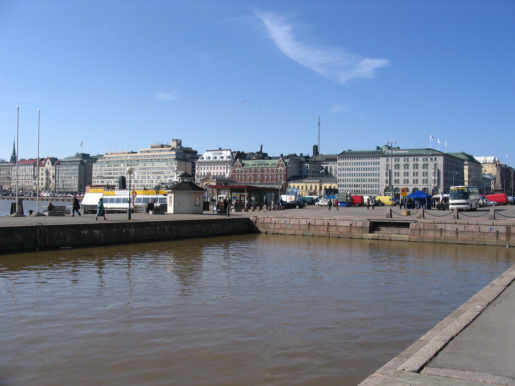 Market Place of Helsinki